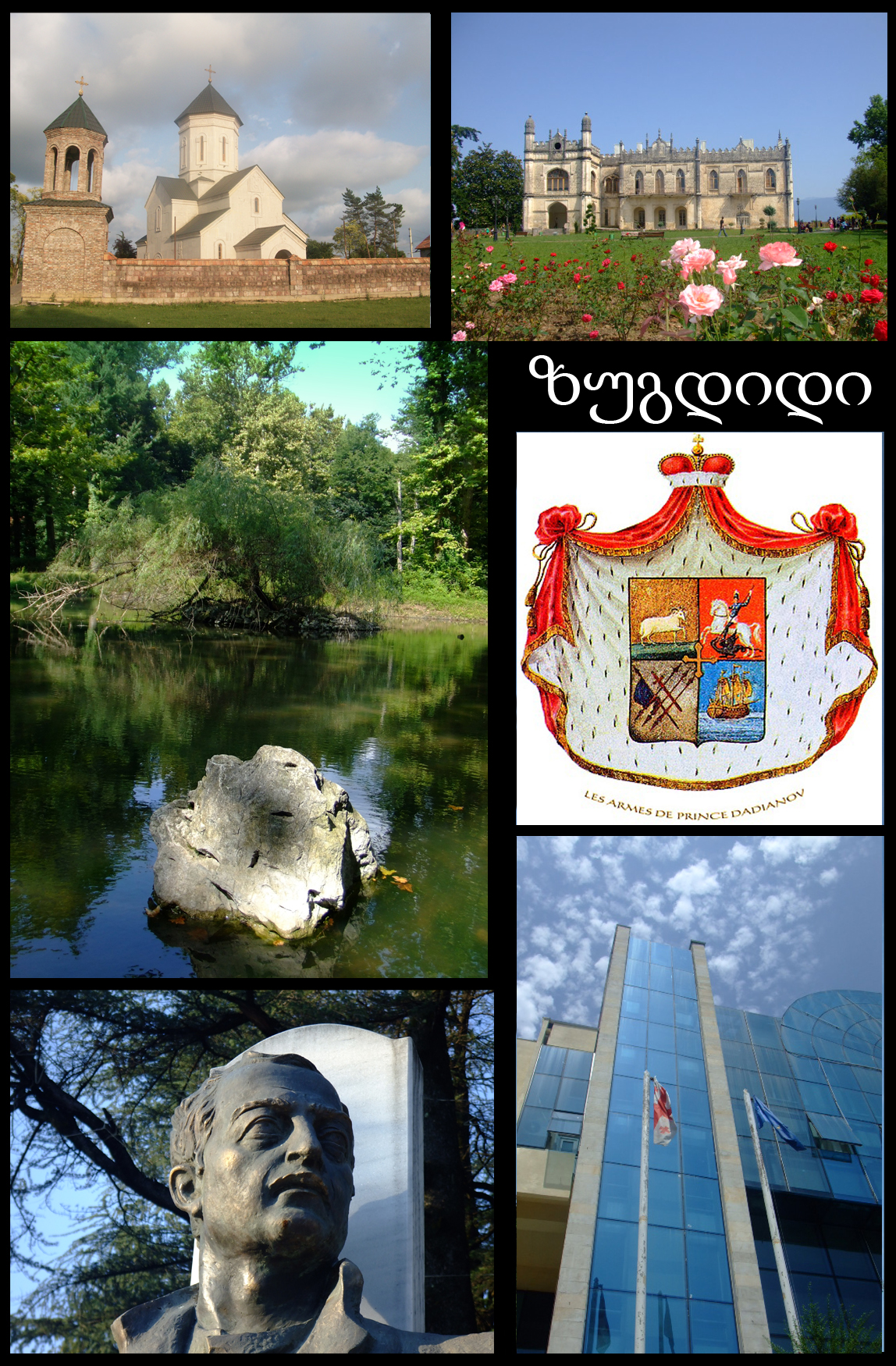 Zugdiidi